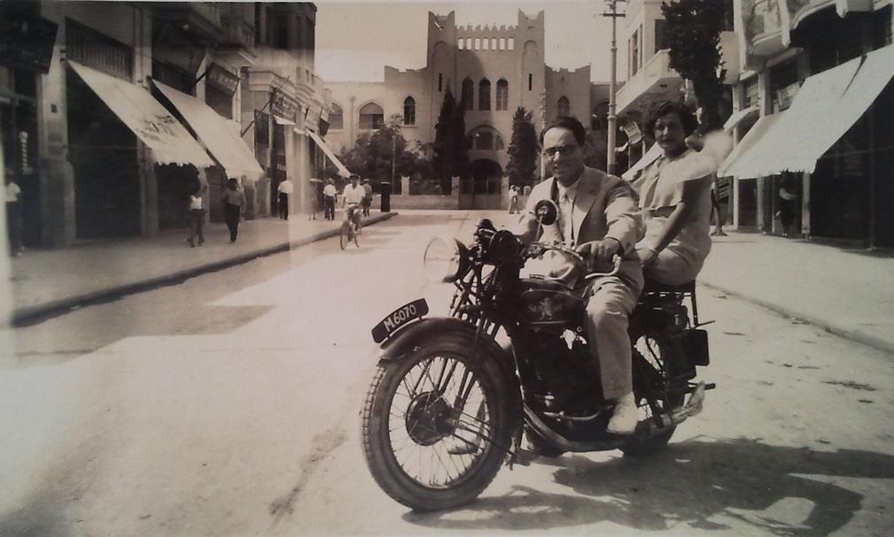 Tel aviv, Cities in Israel